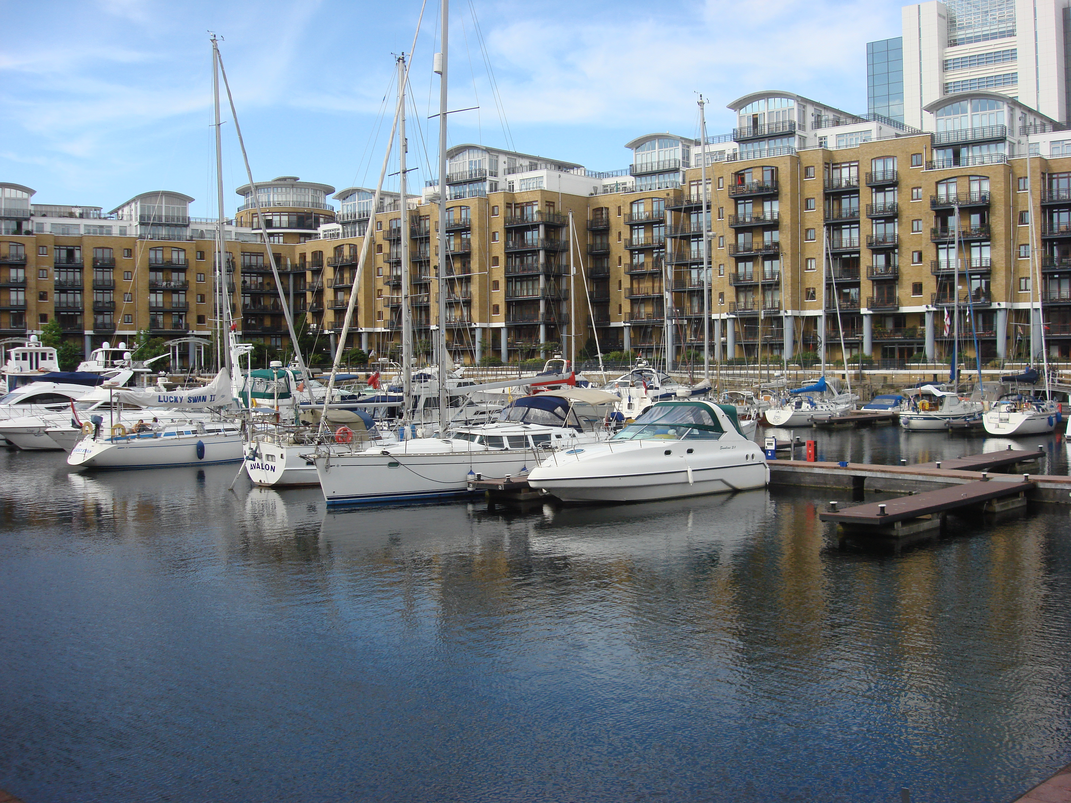 St Katharine Docks